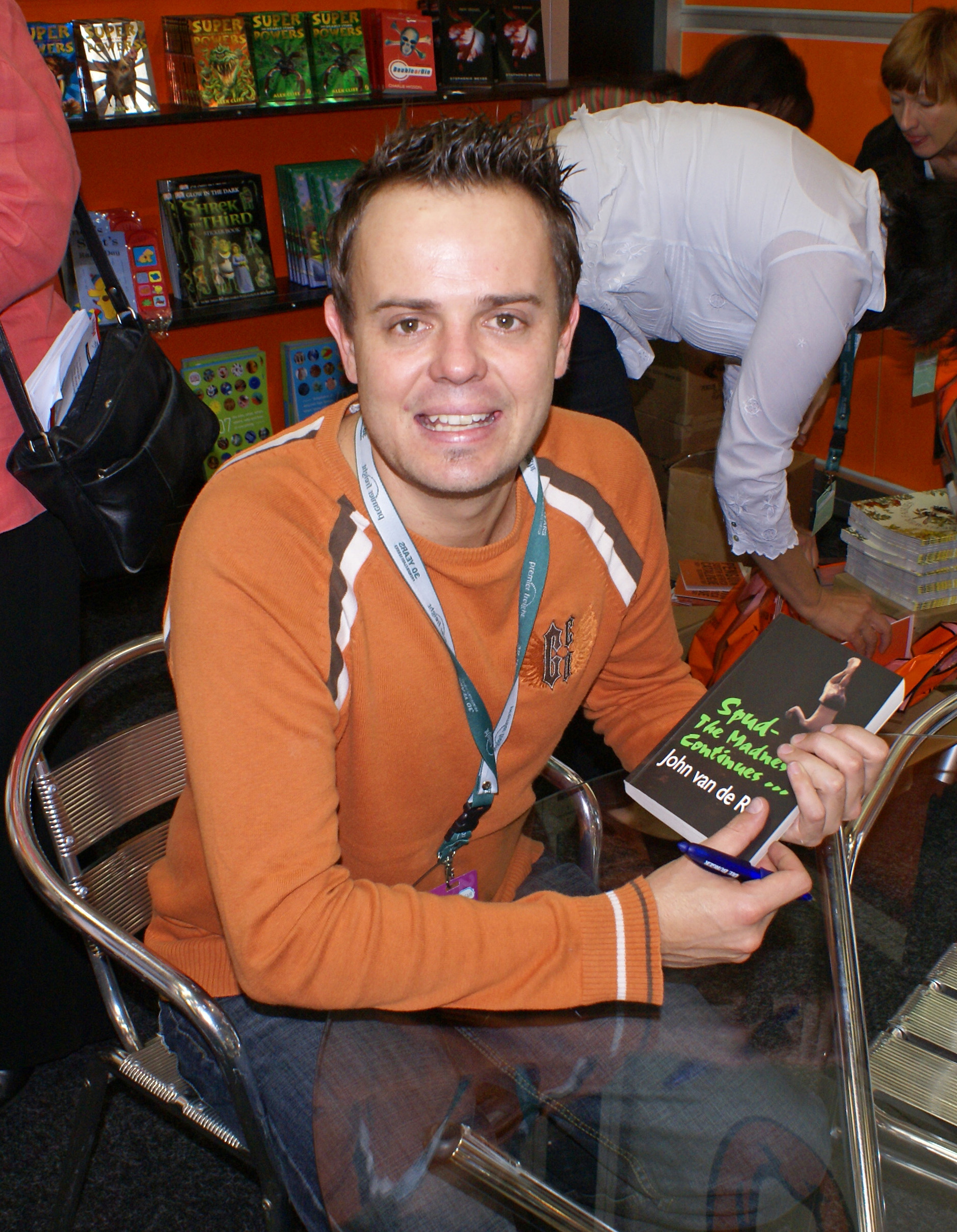 Photo of author John van de Ruit.